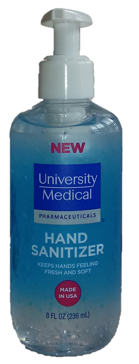 An 8oz bottle of University Medical Pharmaceutical Hand Sanitizer